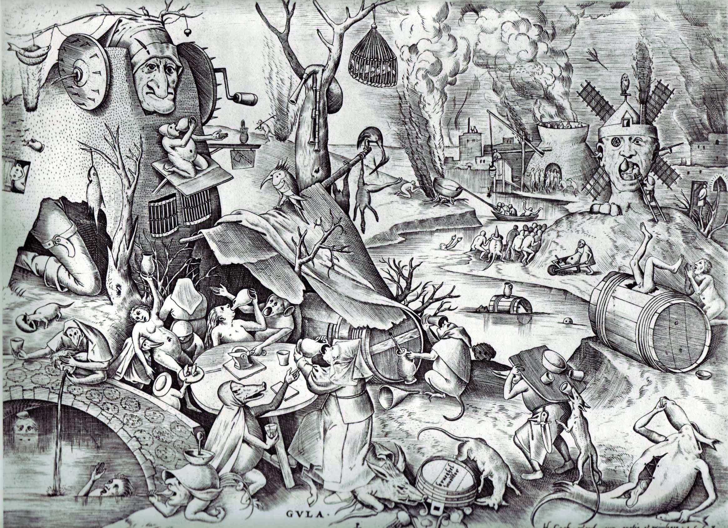 Pieter Bruegel the Elder: The Seven Deadly Sins or the Seven Vices - Gluttony